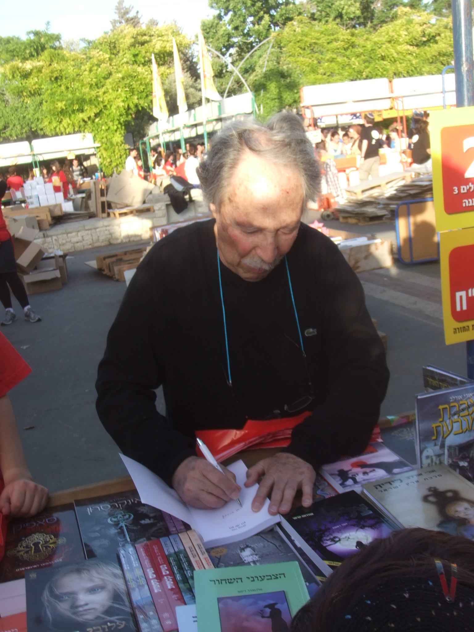 Uri Orlev at Hebrew Book Week 2013 fair in Jerusalem